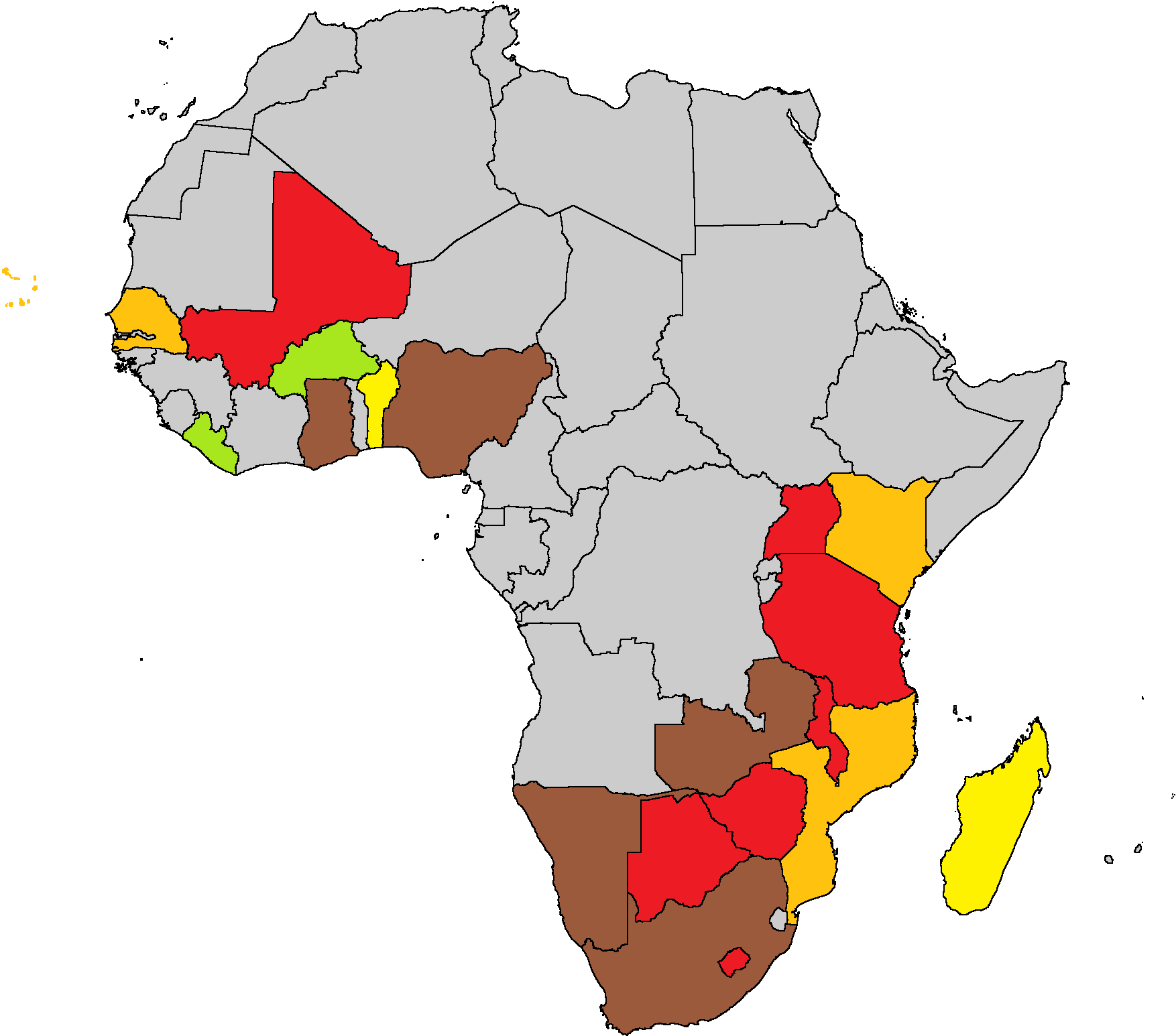 Map of Afrobarometer survey countries Surveyed in Rounds 1 through 4, and at least one other time Surveyed in Rounds 1 through 4 Surveyed in Rounds 2 through 4 Surveyed in Rounds 3 and 4 Surveyed in Round 4 only